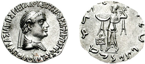 Coin of the Indo-Graeco king Appollodotos II